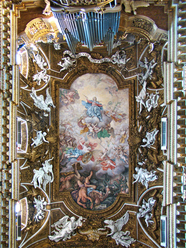 Church of Santa Maria della Vittoria, Rome, Lazio, Italy. Vault over the nave, decorated with a fresco representing The Virgin Mary Triumphing over Heresy, a work by the brothers Giuseppe and Andrea Orazi (late 17th, early 18th Centuries).